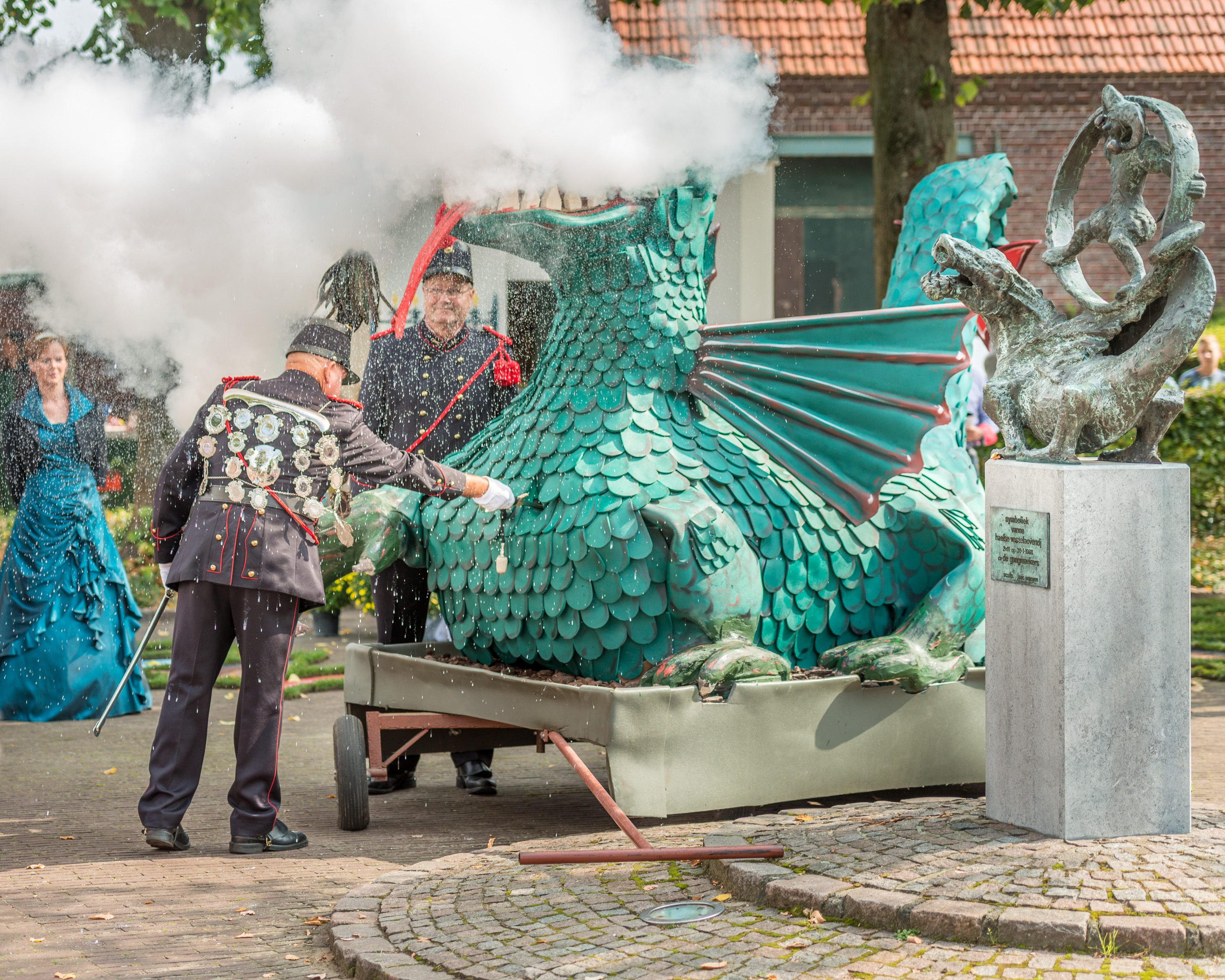 Draaksteken on Dorpsstraat, Heel (Maasgouw), Netherlands